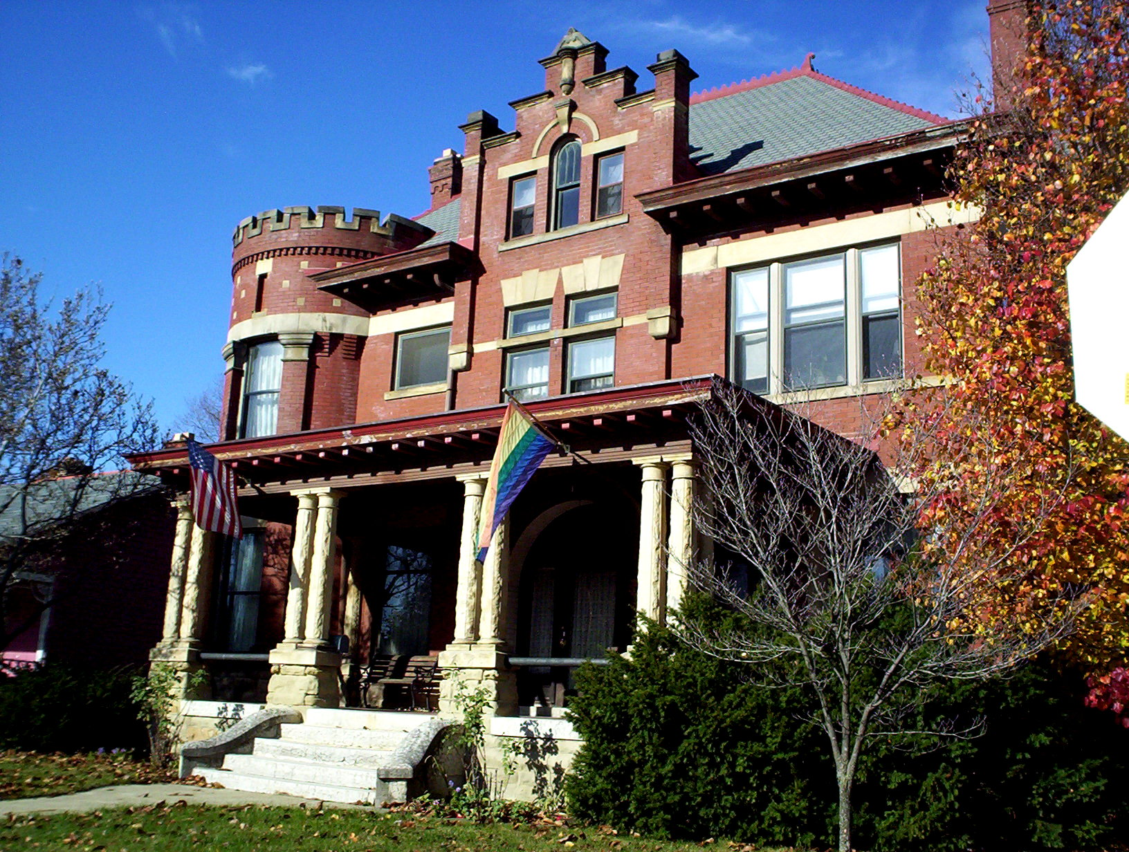 One of the varied large historic homes of Olde Towne East